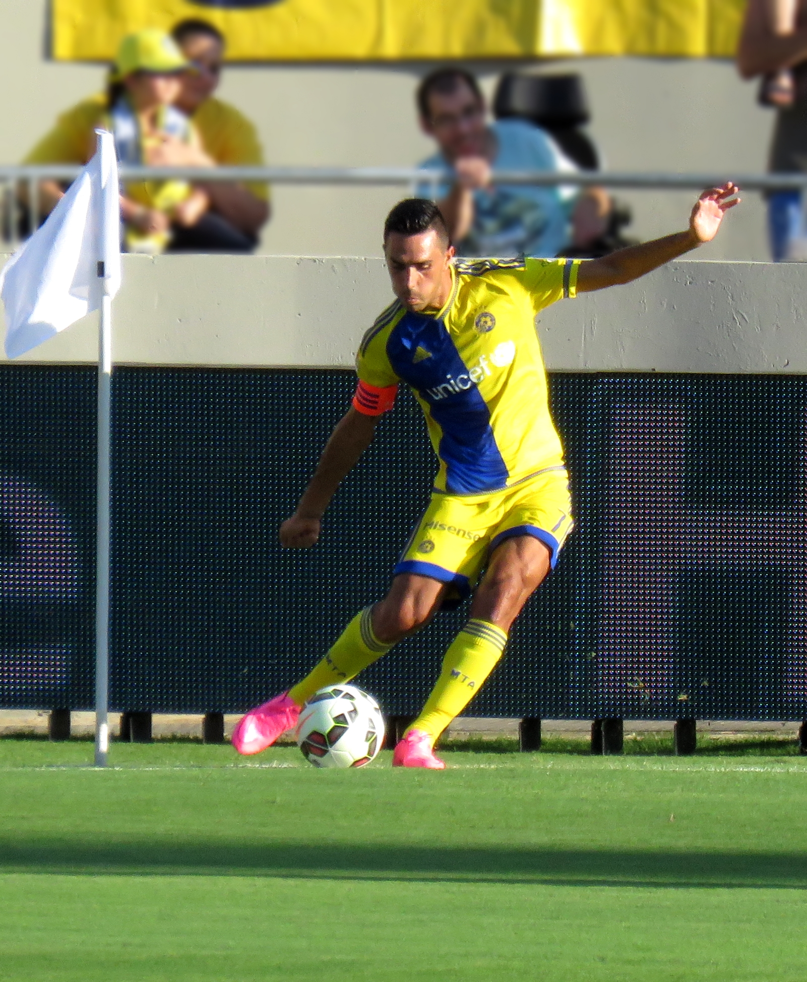 Maccabi Tel Aviv VS. Bnei Sakhnin, 22 August 2015